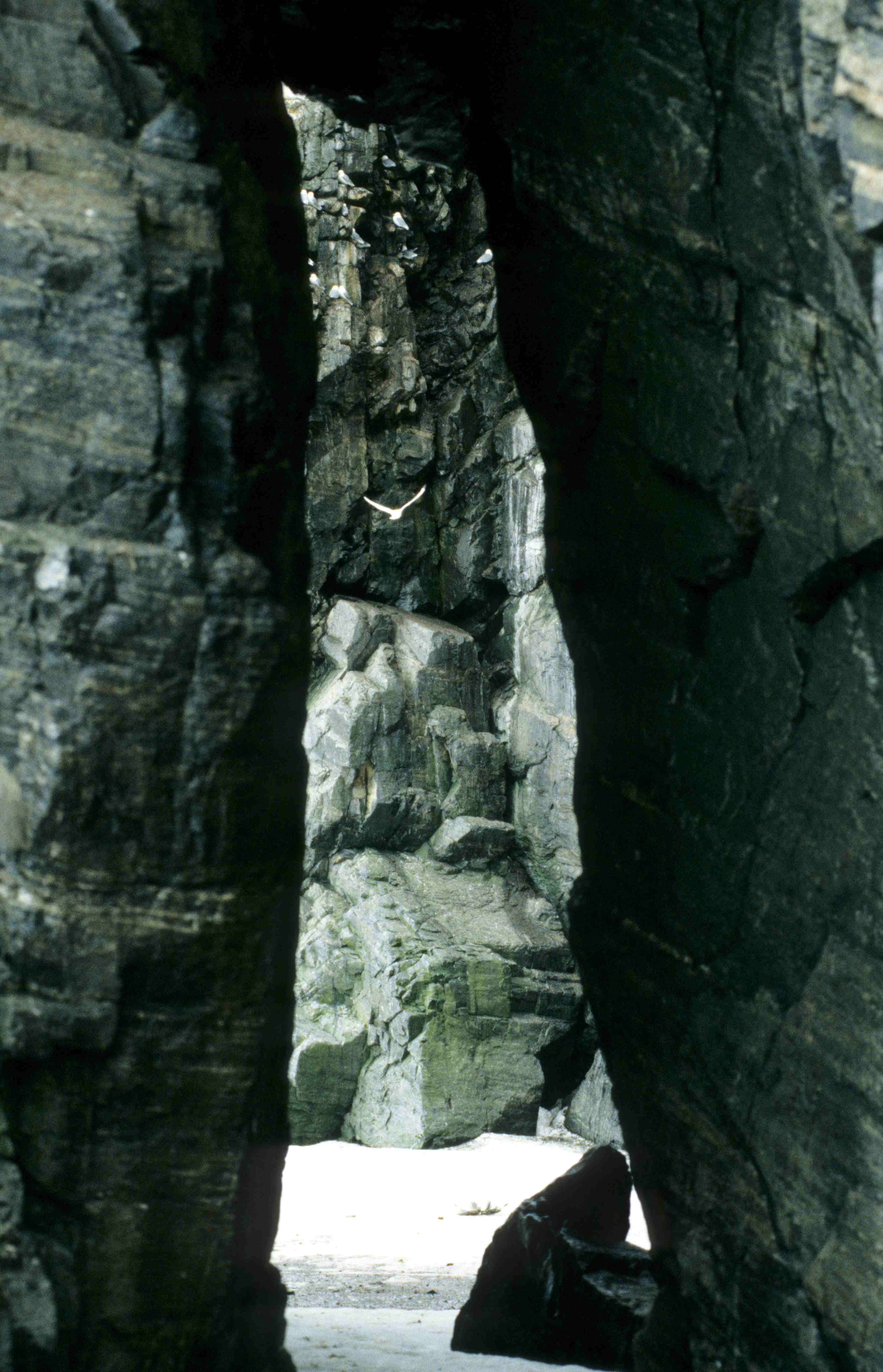 Cape Graham Moore with Kittiwakes (south-eastern tip of Bylot Island at Baffin Bay, Sirmilik National Park, Canada)